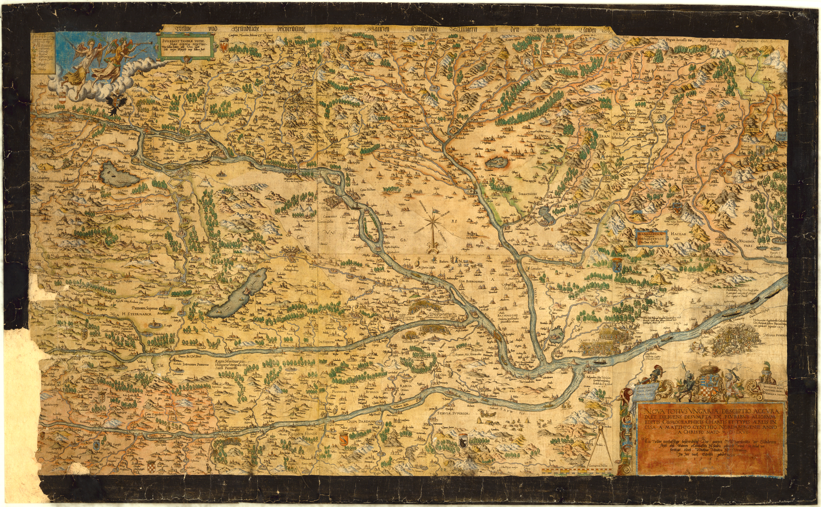 This rare map of Hungary was produced by Matthias Zündt in 1567. Zündt (circa 1498–1572) was an engraver, sculptor, and goldsmith from Nuremberg who produced 13 copper-plate engraved maps and views between 1565 and 1571. The map originally appeared in six sheets arranged together. It shows colorful views of important cities, kingdoms, provinces, and bordering countries. Episcopal churches and Turkish religious buildings are shown, reflecting the fact that at the time one-third of the country was ruled by the Turks. Pastoral life is depicted through illustrations of cattle, shepherds, dogs, rustic houses, cabins, horsemen, and animals. Mines and mountains as well as important 16th-century military events such as battles, sieges, and encampments also are depicted. Place-names are primarily in Latin with some in Hungarian and German. Zündt’s map was used as a source in 16th-century atlases such as Ortelius’s 1573 Theatrum Orbis Terrarum and Gerard de Jode’s Speculum Orbis Terrae, published in 1584 and 1593.